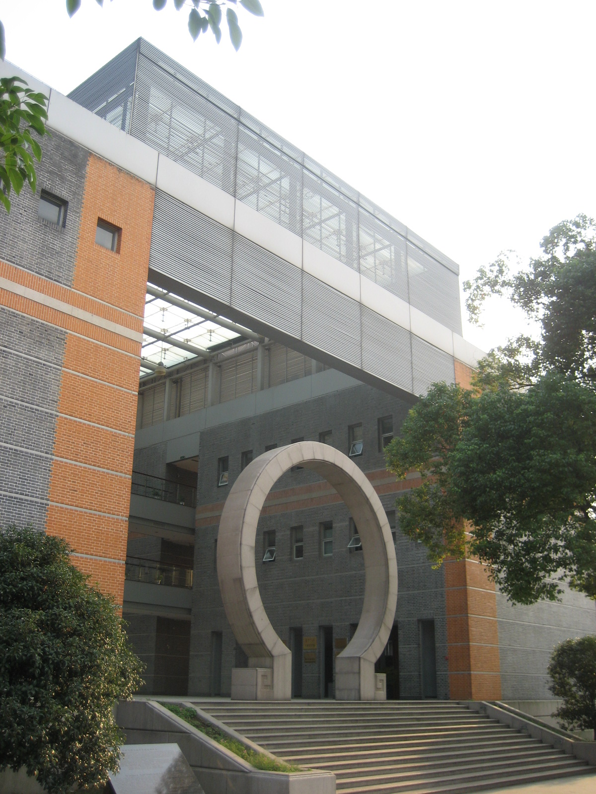 Kenneth Wang School of Law, Soochow University, Suzhou, China